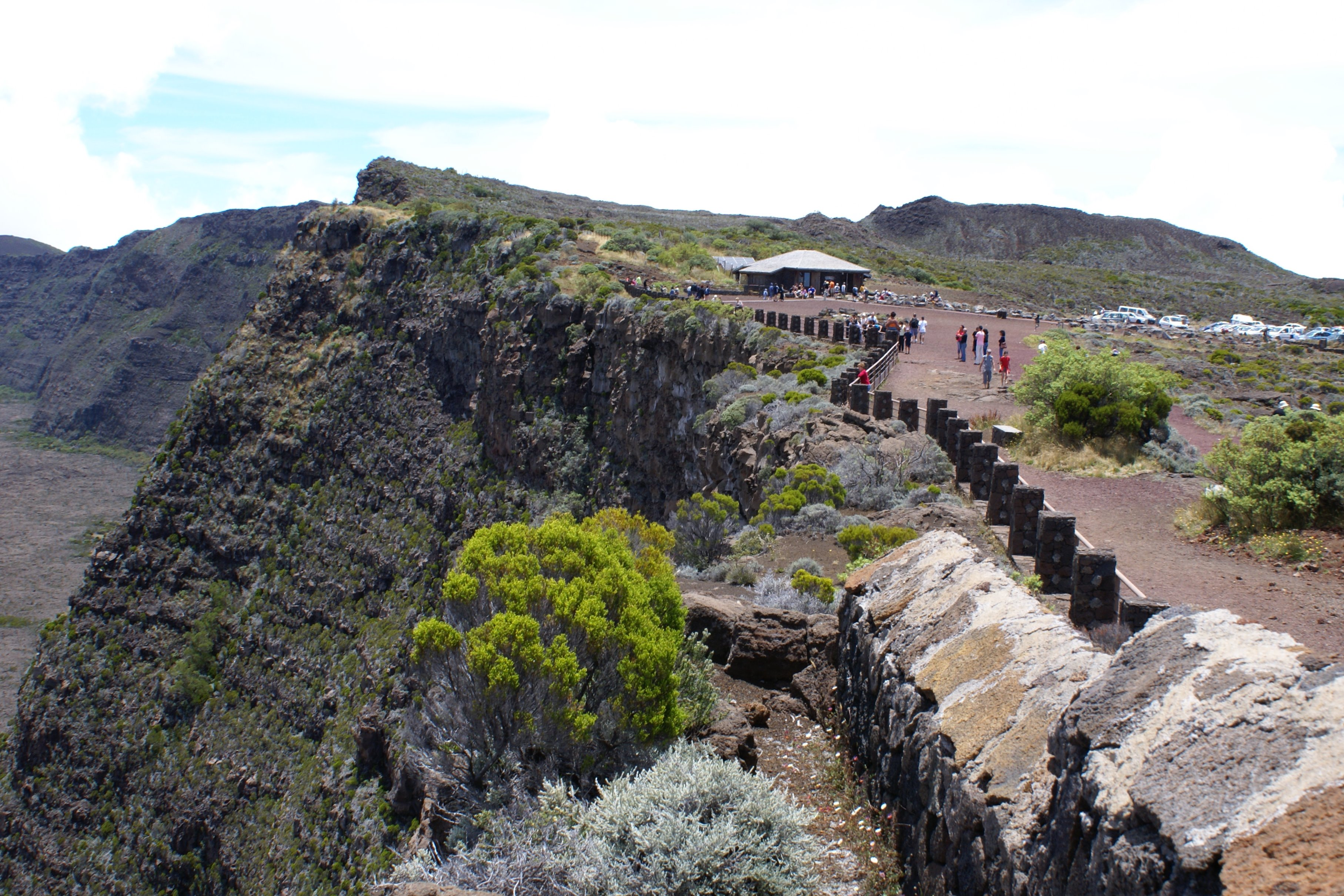 The parking lot at the end of the Route du Volcan, on the way to the Piton de la Fournaise summit, near the Pas de Bellecombe.